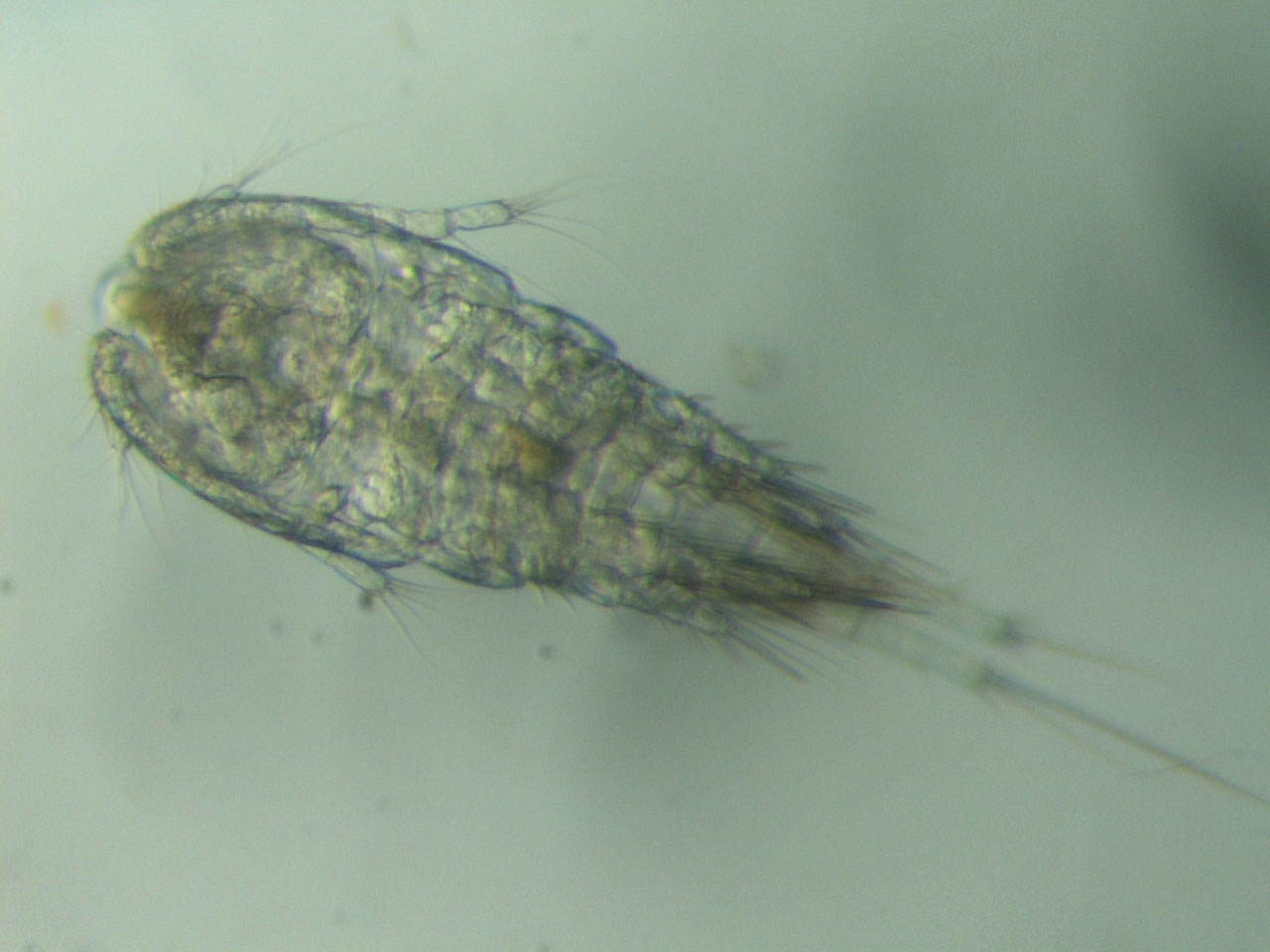 Zooplankton, Copepod, Diacyclops thomasi. July 2010.